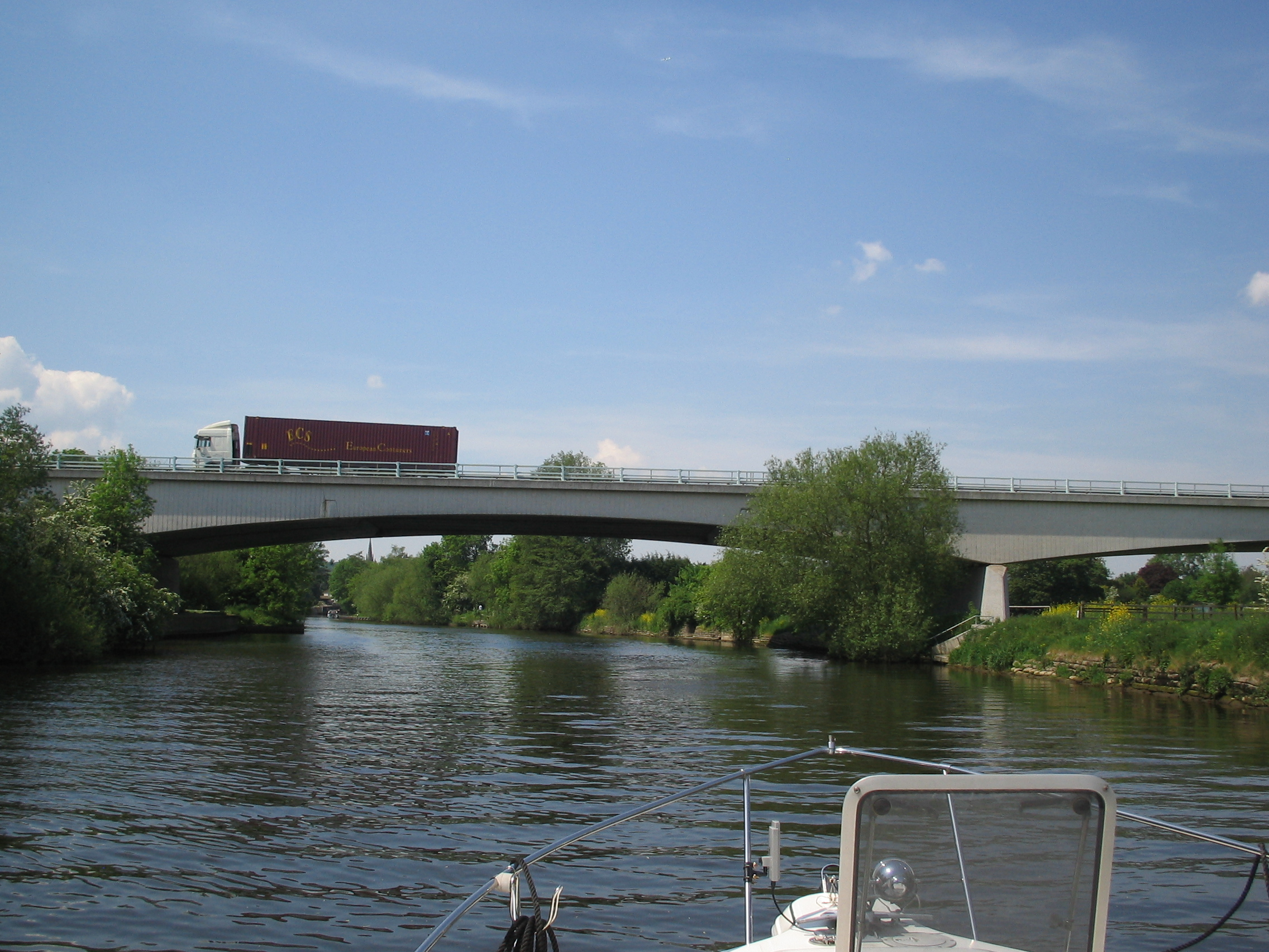 Marlow Bypass Bridge (downstream side) carrying the A404 across the Thames.